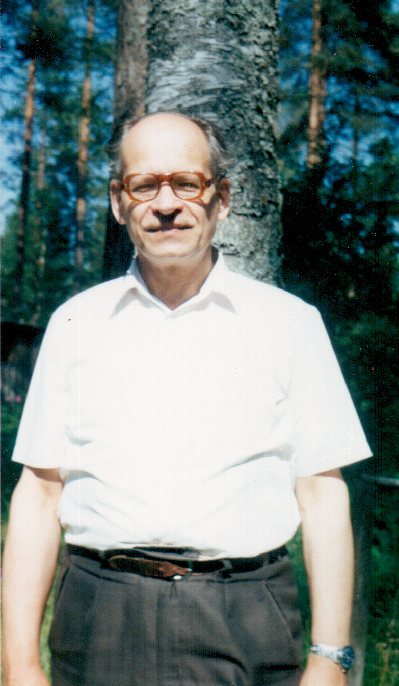 Sergey Evgenyevich Yakhontov (С.Е. Яхонтов, Горьковское на Карельском перешейке)